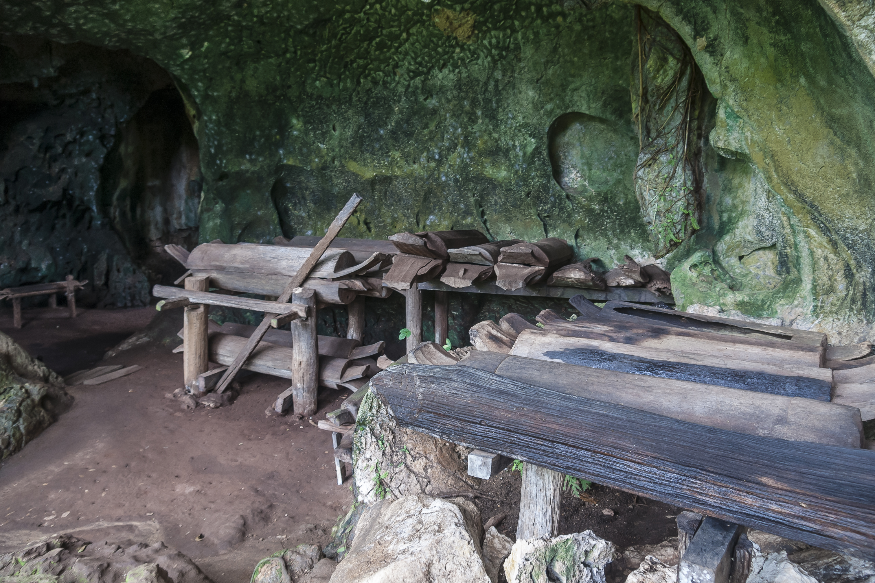 Kg. Batu Putih, Sabah: Agop Batu Tulug (Batu Tulug Caves) in District Kinabatangan; Wooden Coffins